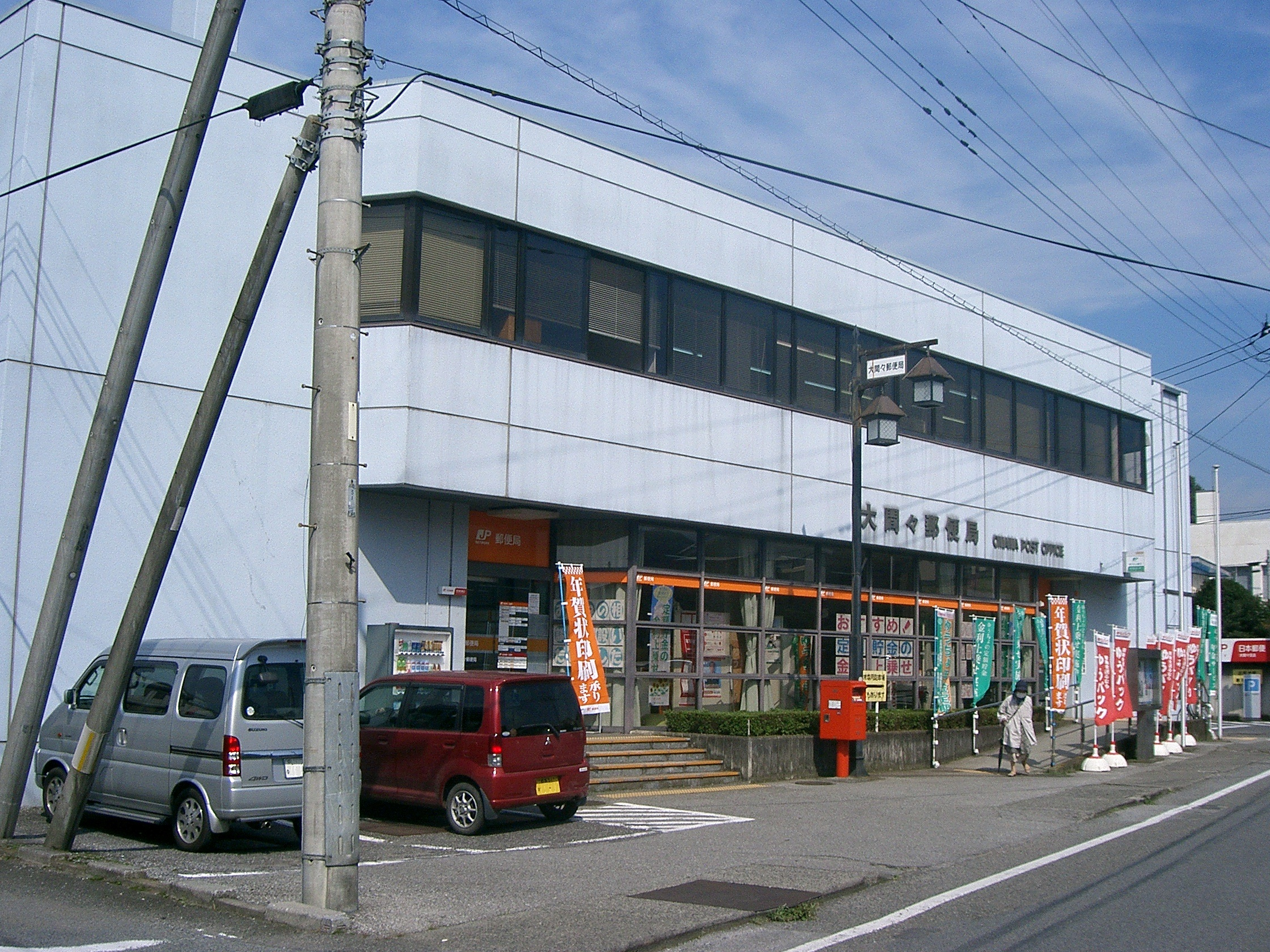 Omama Post Office